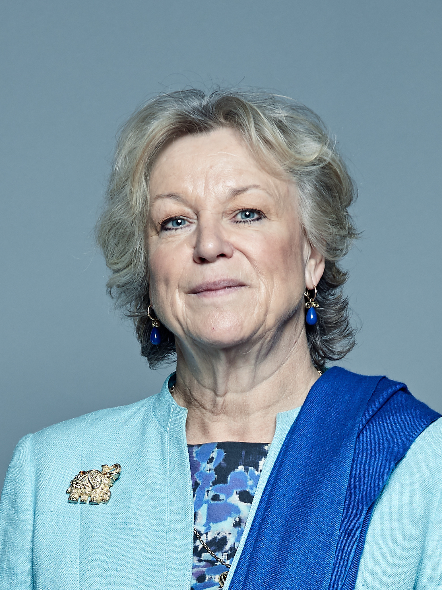 Official portrait of Baroness Hodgson of Abinger 3×4 portrait of Baroness Hodgson of Abinger